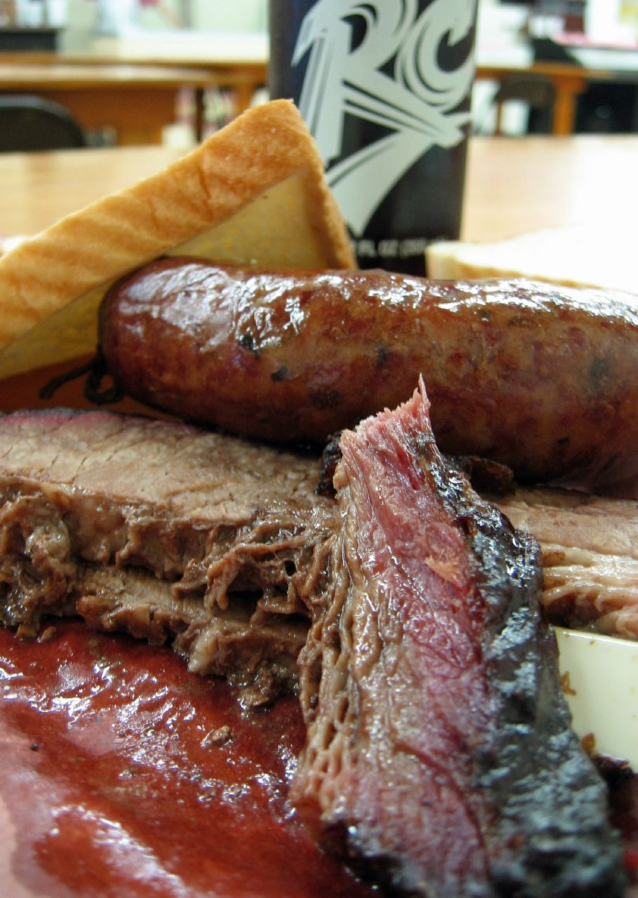 Beef and sausage in Texas, RC Cola in background.